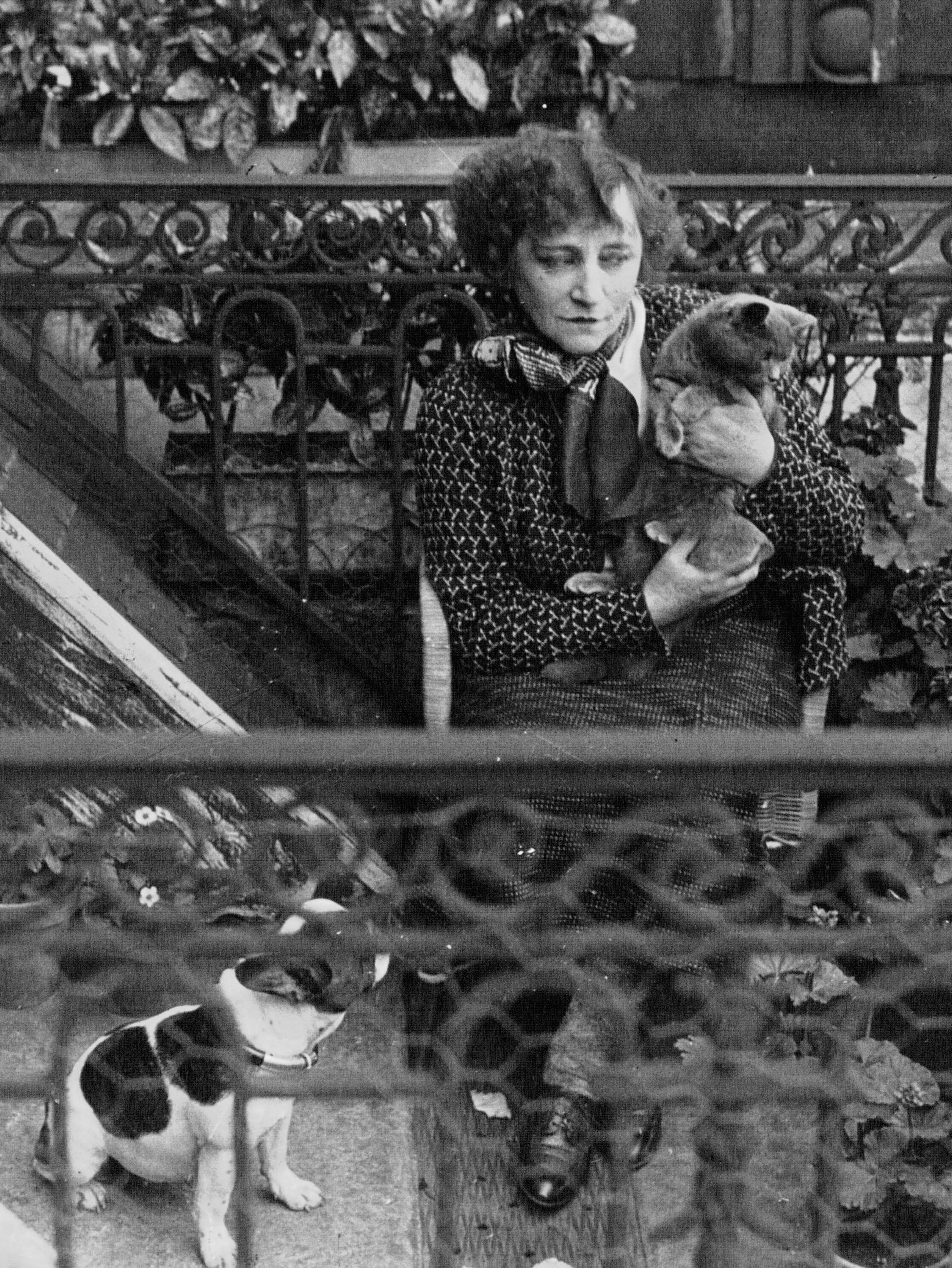 French writer Colette (1873-1954) with two of her pets.